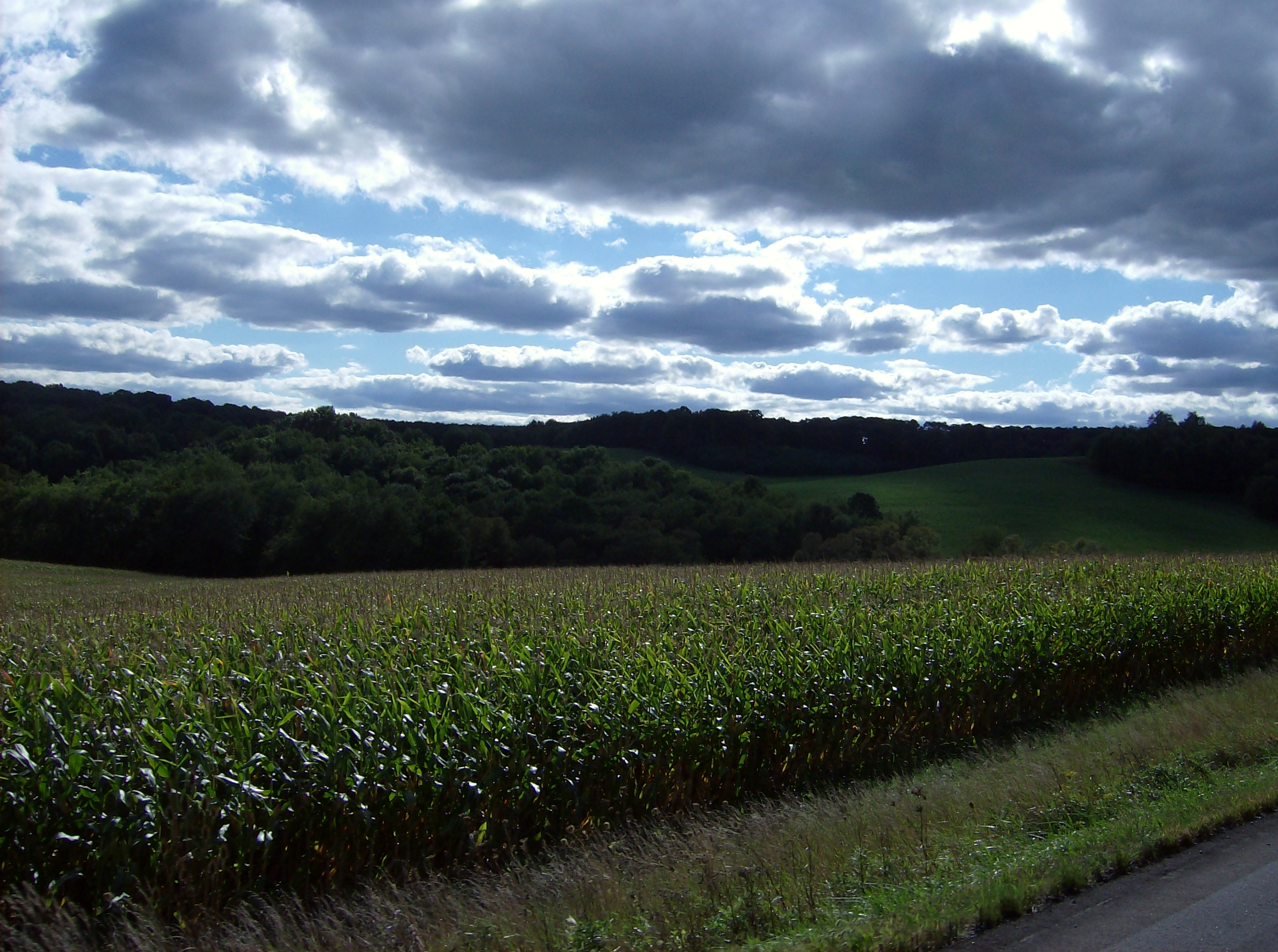 View southwestward from U.S. Route 30 into a valley in eastern Hanover Township, Columbiana County, Ohio, United States.